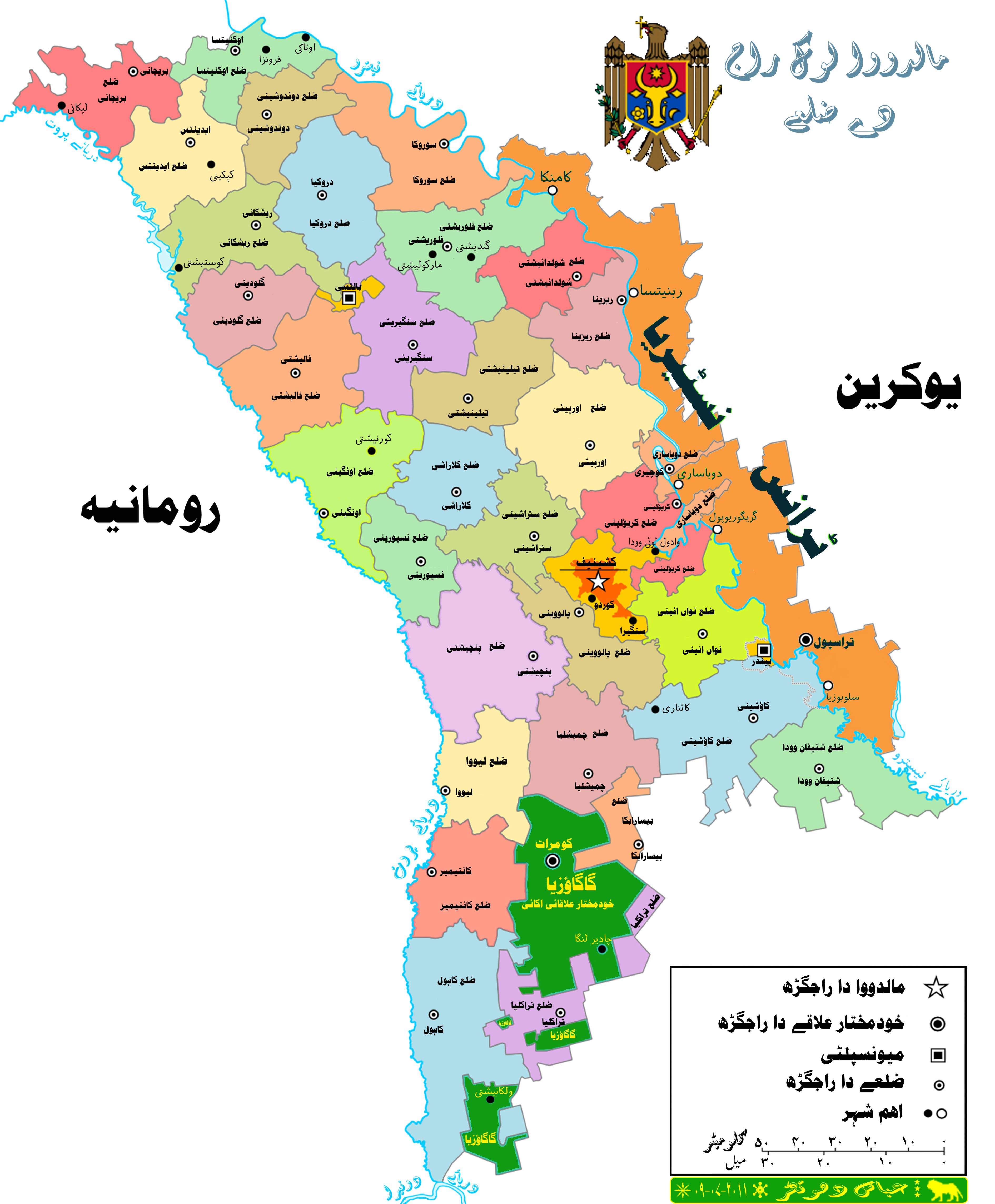 Map of subdivisions of Moldova in Punjabi.